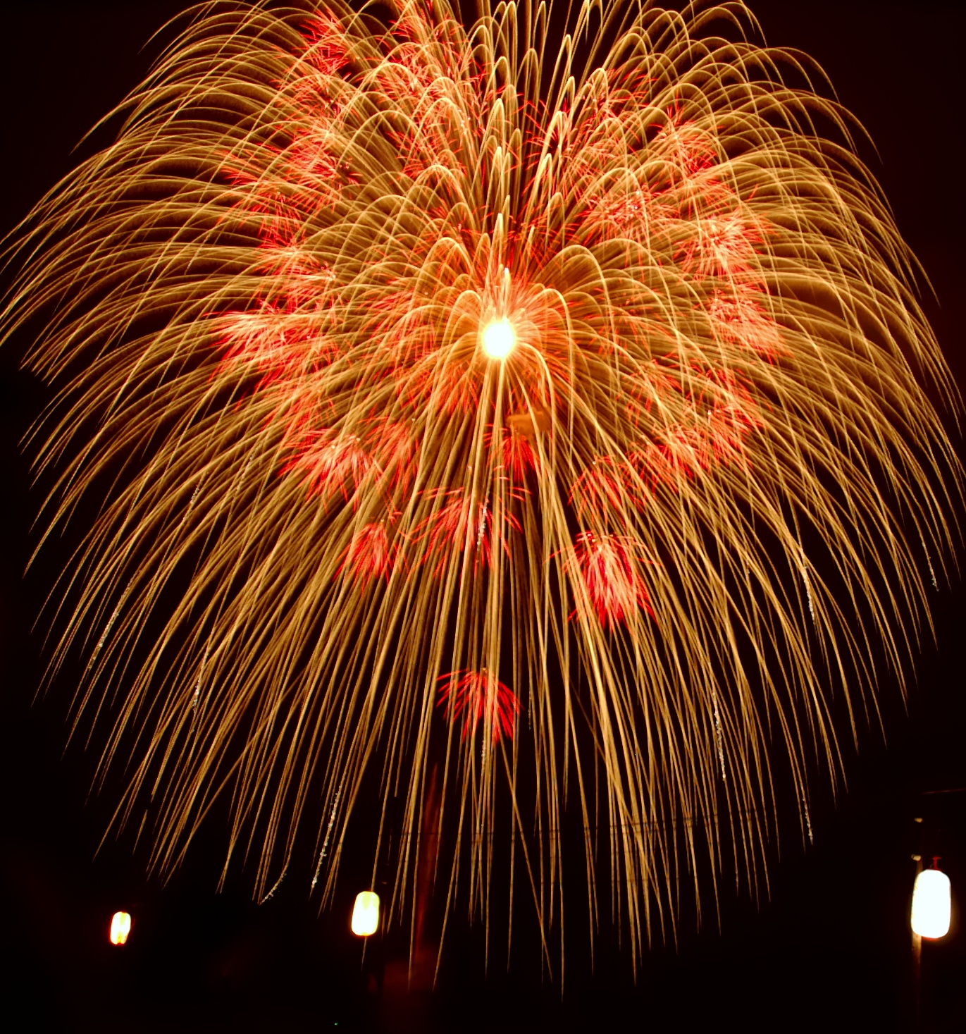 Fireworks of Nagaoka Festival (長岡まつりのja:花火、三尺玉)